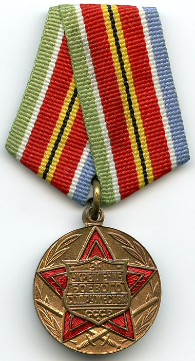 Soviet Medal "For Strengthening of Brortherhood in Arms.